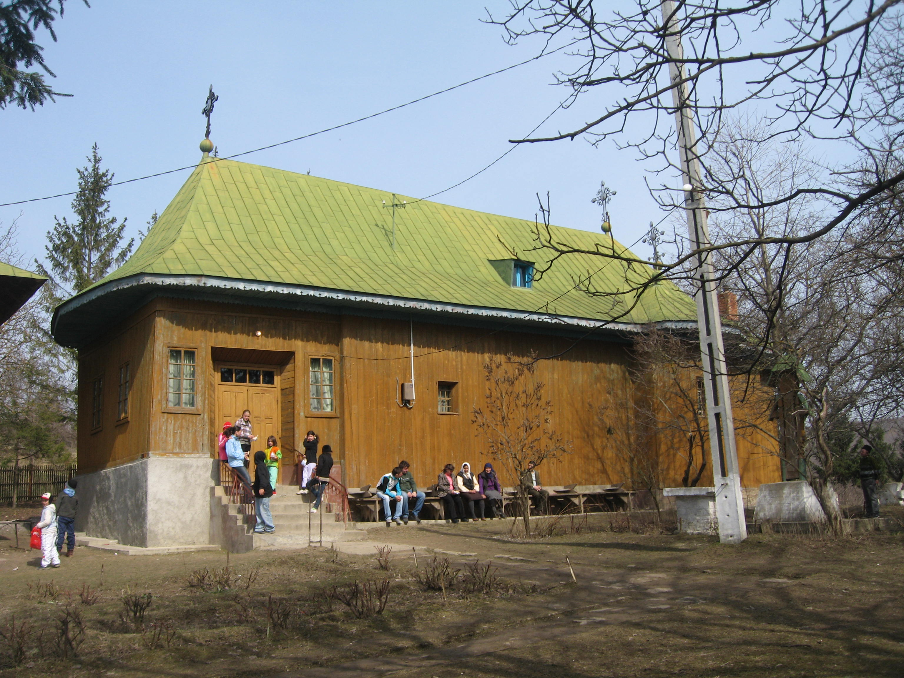 Biserica de lemn din Dobrovat